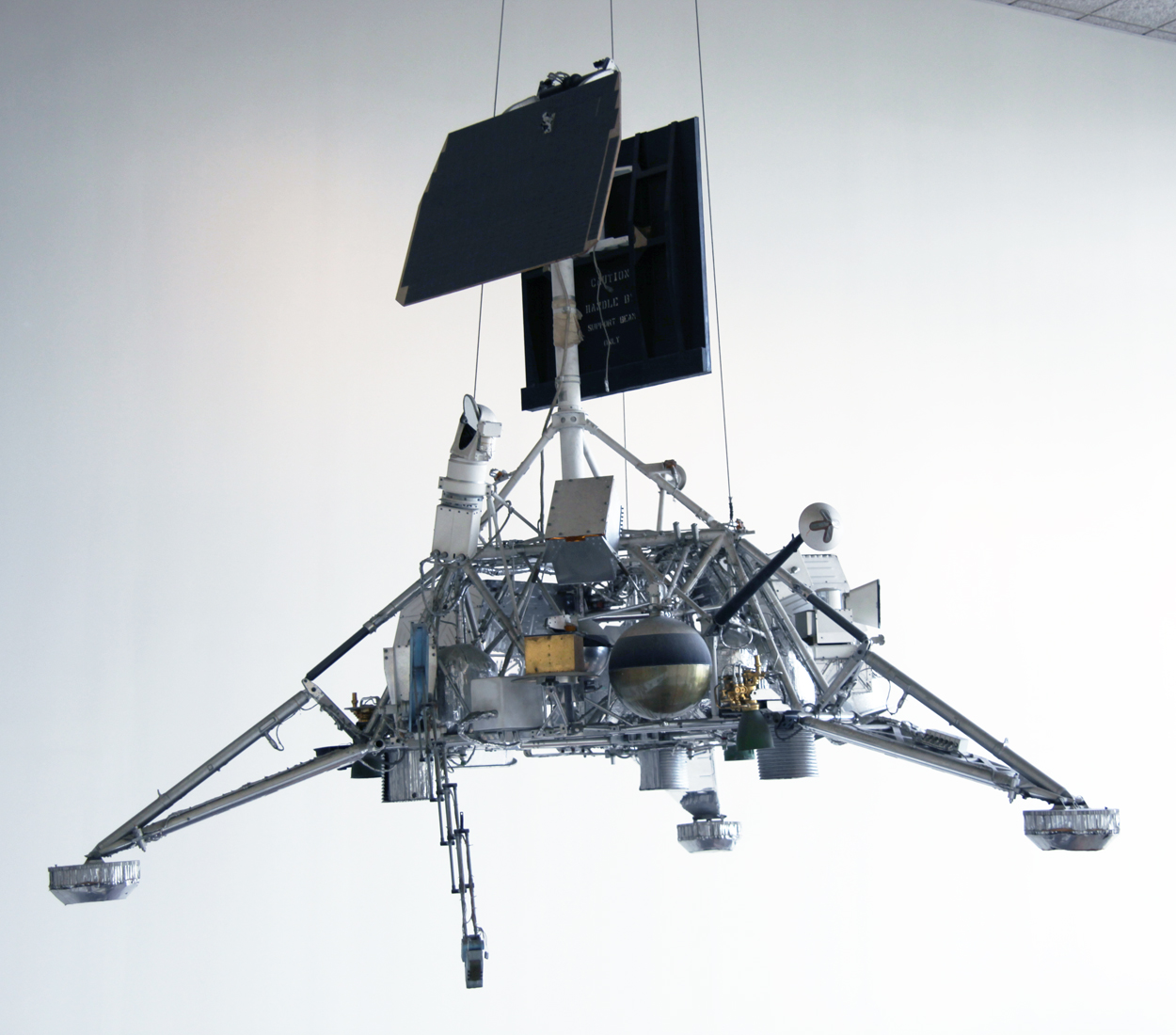 Engineering back-up of Surveyor lunar lander in the Space Hall at the Smithsonian Air and Space Museum in Washington, D.C.